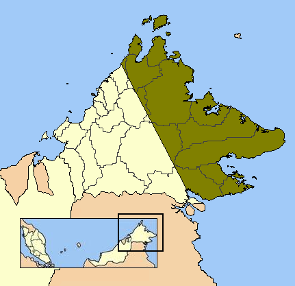 Territory in 1878 agreement between Sulu and British syndicate - Pandassan River (6.526386 N 116.502644 S) on the north west coast to Sibuco River (4.437895 N 117.603570 S) in the south.